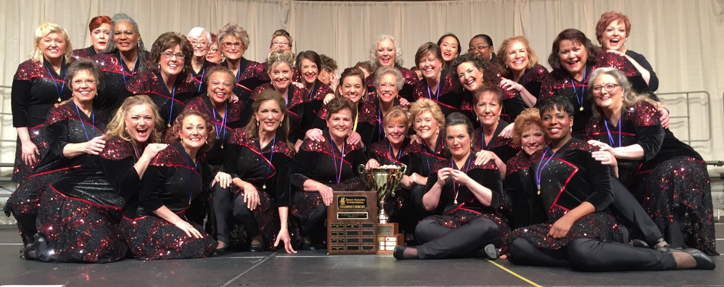 MNC after being named 2017 Regional Chorus Champions in Region 4 Harmony Heartland.